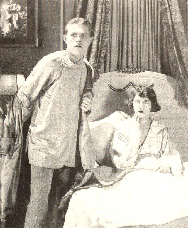 Still from the American silent film Please Get Married (1919) with Viola Dana and Antrim Short, page 67 of the October 1919 Shadowland.